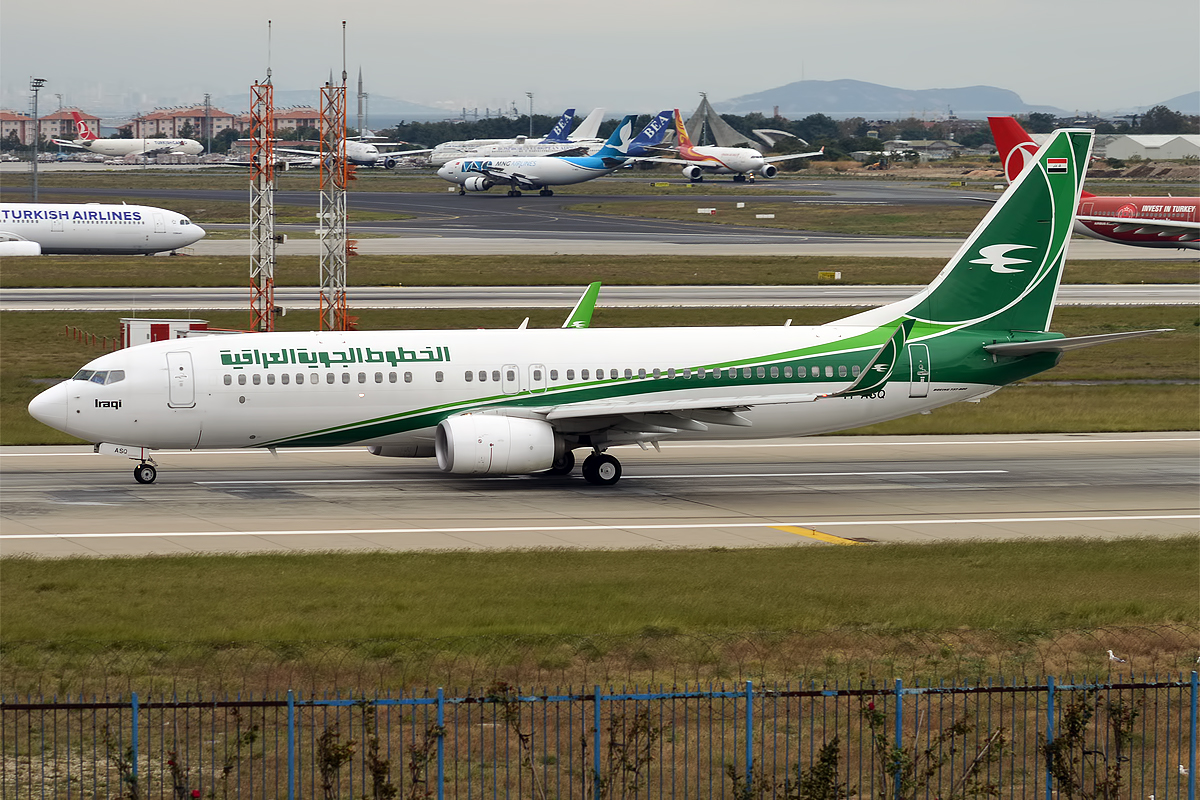 Iraqi Airways, YI-ASQ, Boeing 737-81Z